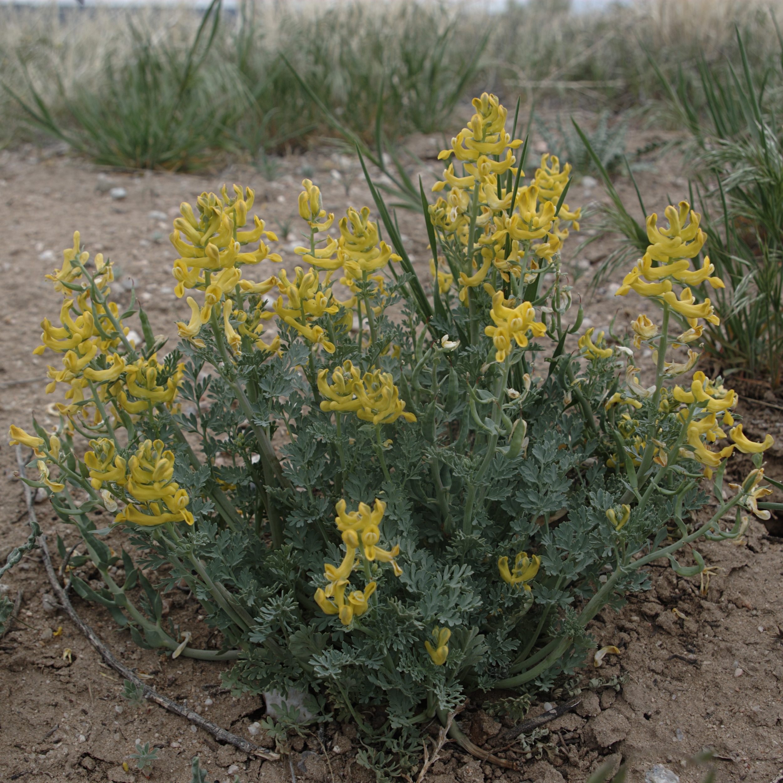 Corydalis aurea, golden smoke, roadside at Ohkay Owingeh Pueblo, New Mexico.